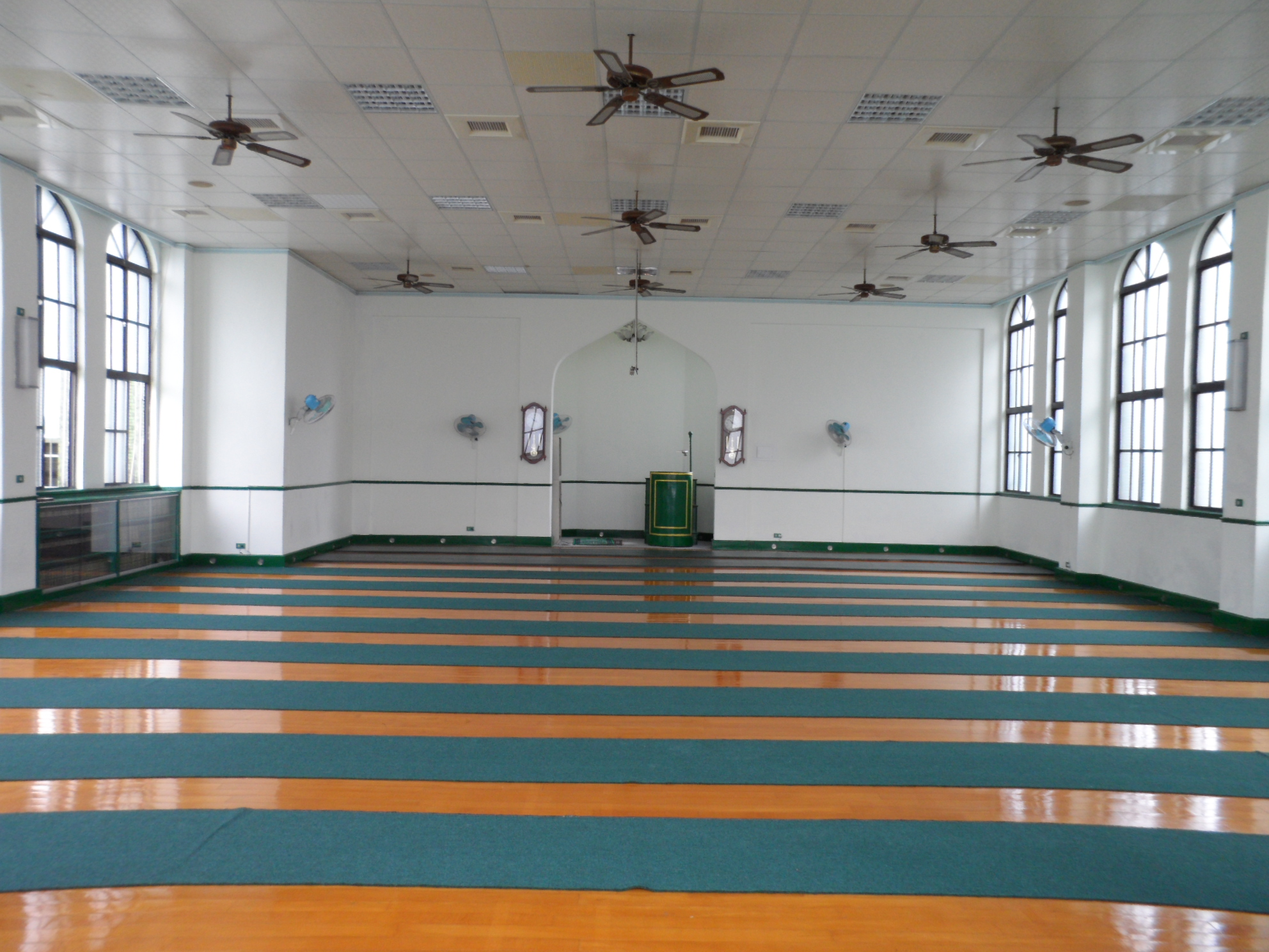 Longgang Mosque Prayer Hall, Zhongli City, Taoyuan County, Taiwan